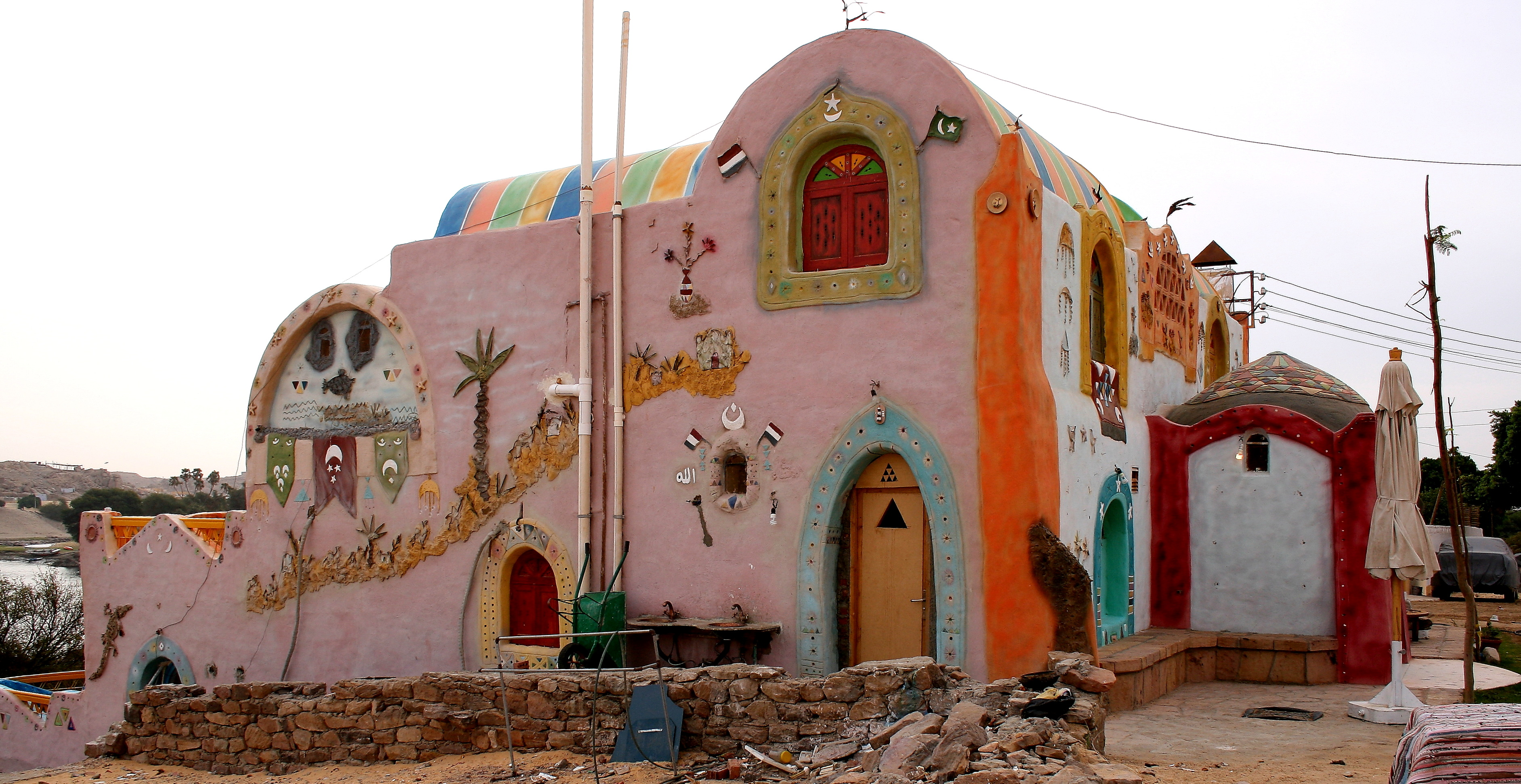 Nubian building in Aswan, Egypt.